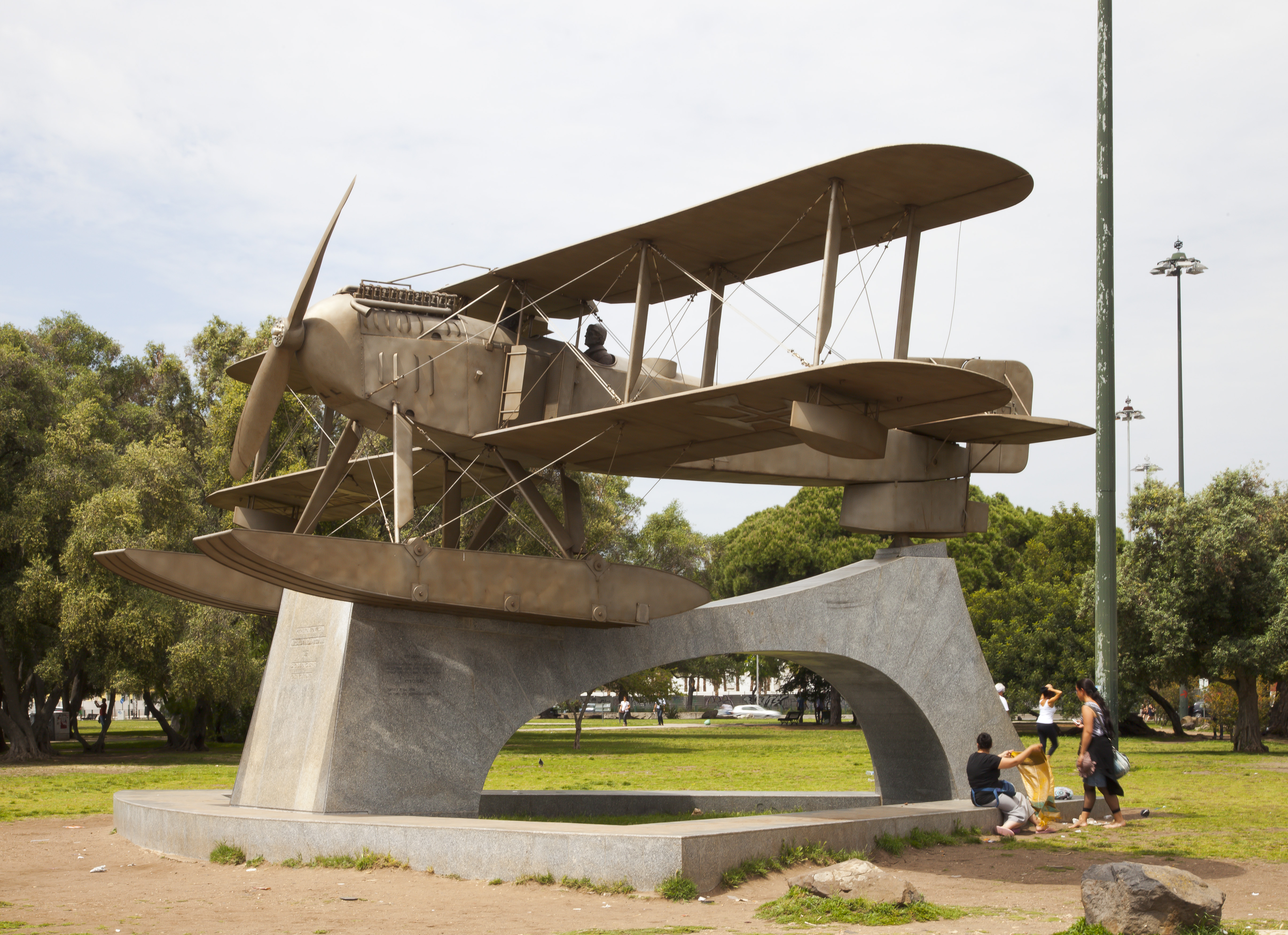 Replica of the first airplane that crossed the Atlantic Ocean, Belem Park, Lisbon, Portugal